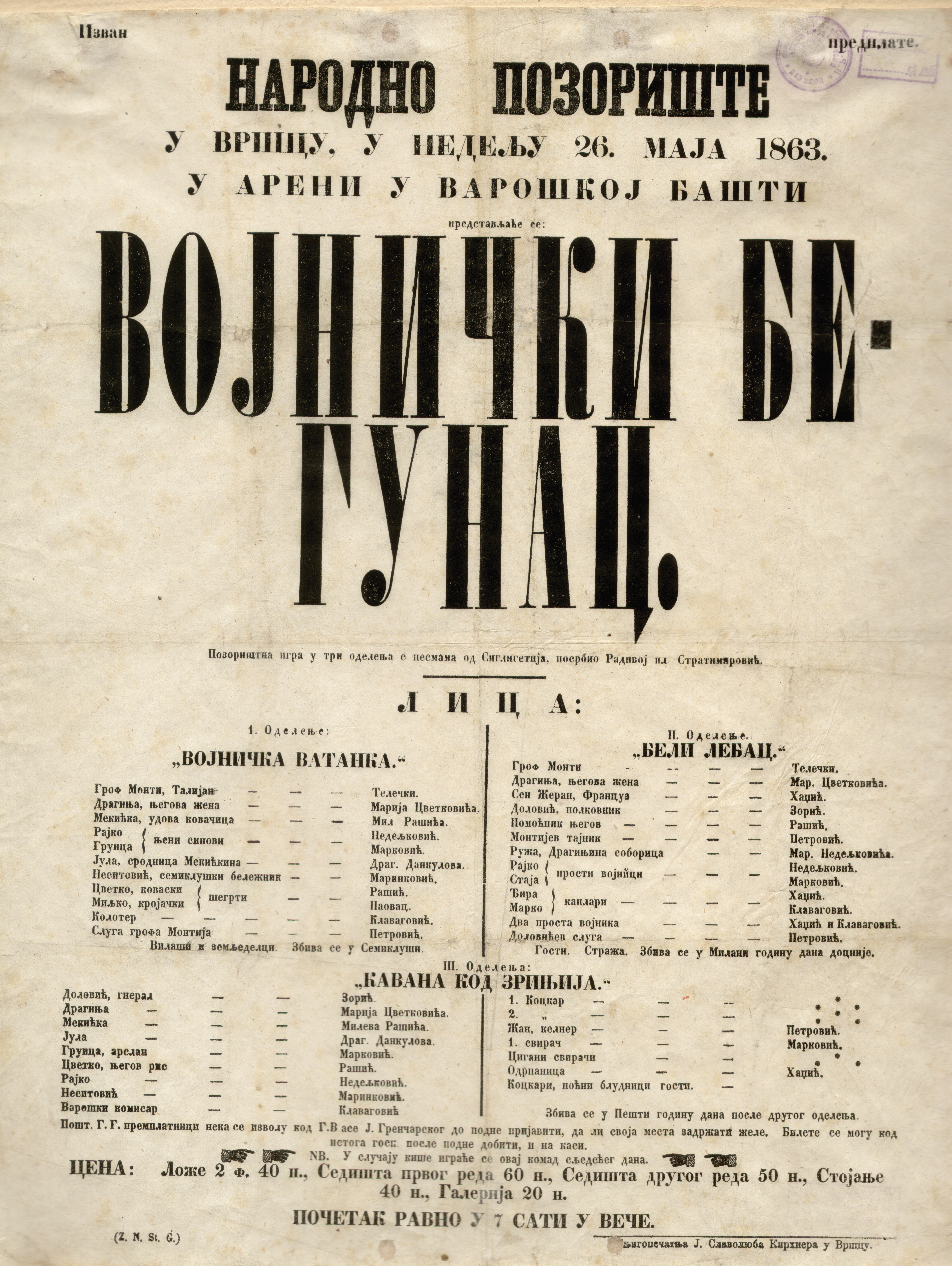 Poster for performance: Deserter, Vršac, 26th May 1863 Srpski (latinica): Plakat za predstavu: Vojnički begunac u Vršcu, 26. maja 1863. Српски (ћирилица): Плакат за представу: Војнички бегунац у Вршцу, 26. маја 1863.